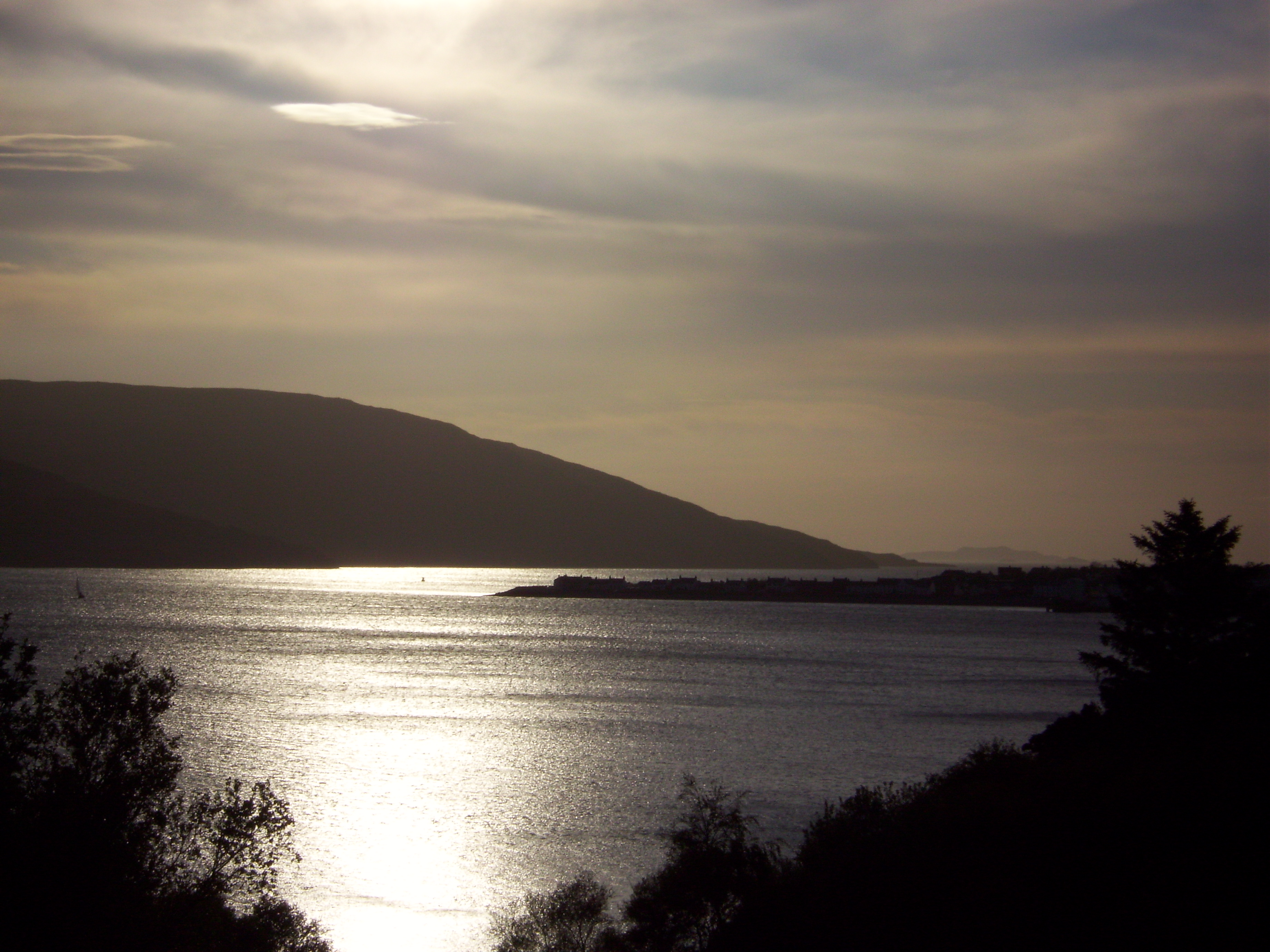 Sunset over Ullappol – Scottish Highlands